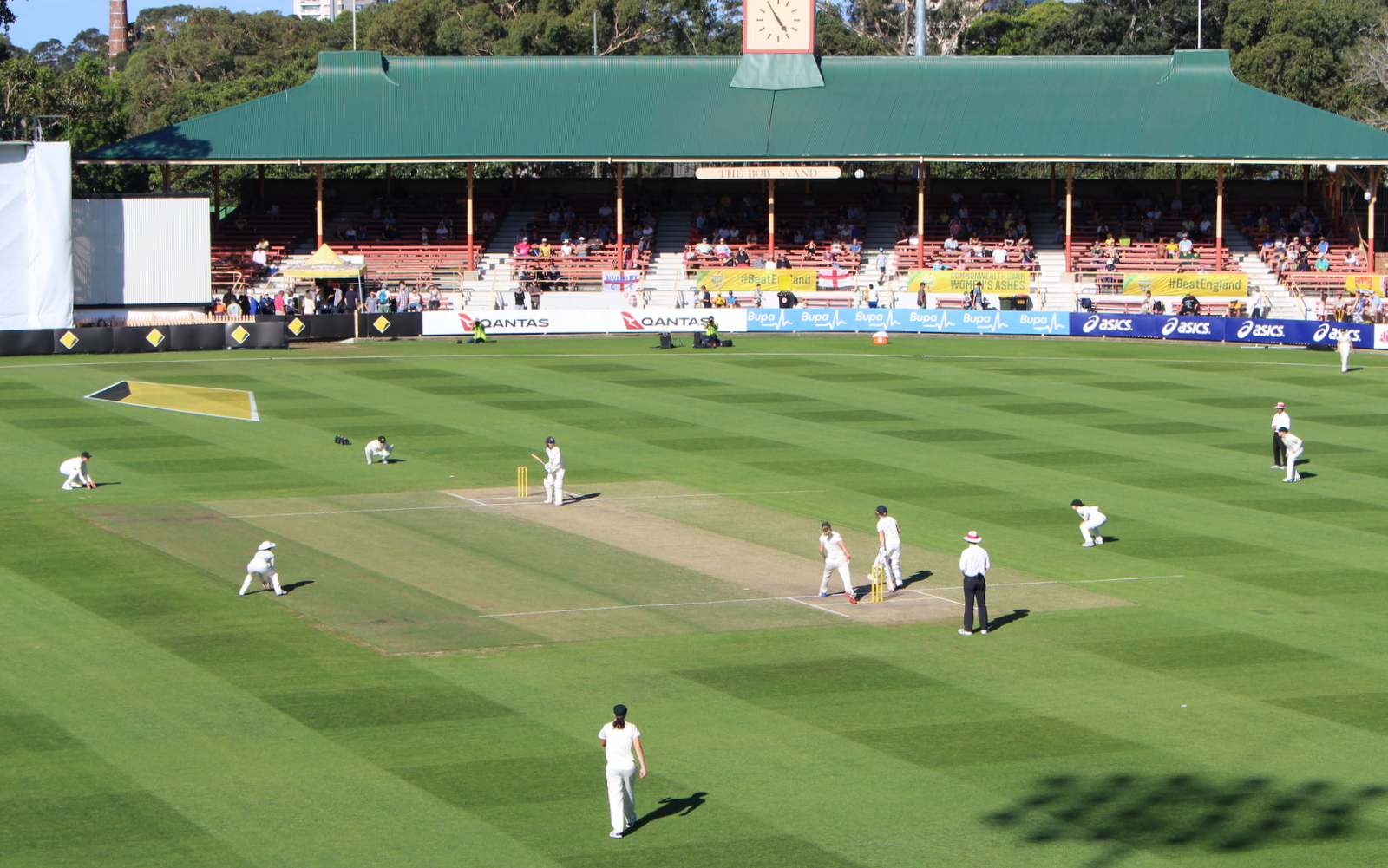 Ellyse Perry bowling, playing test cricket for Australia against England at North Sydney Oval.